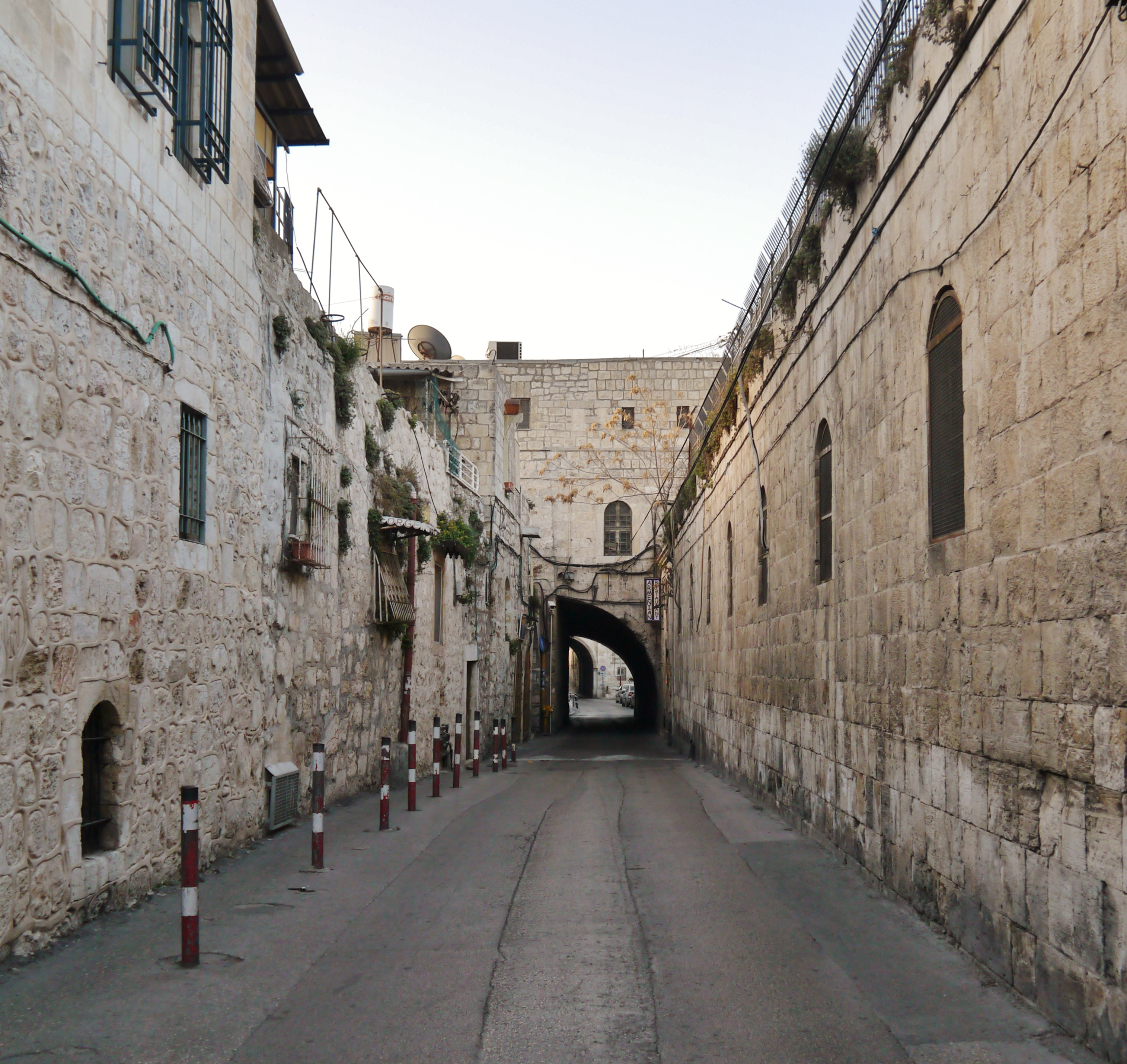 Armenian Quarter, Jerusalem, Israel